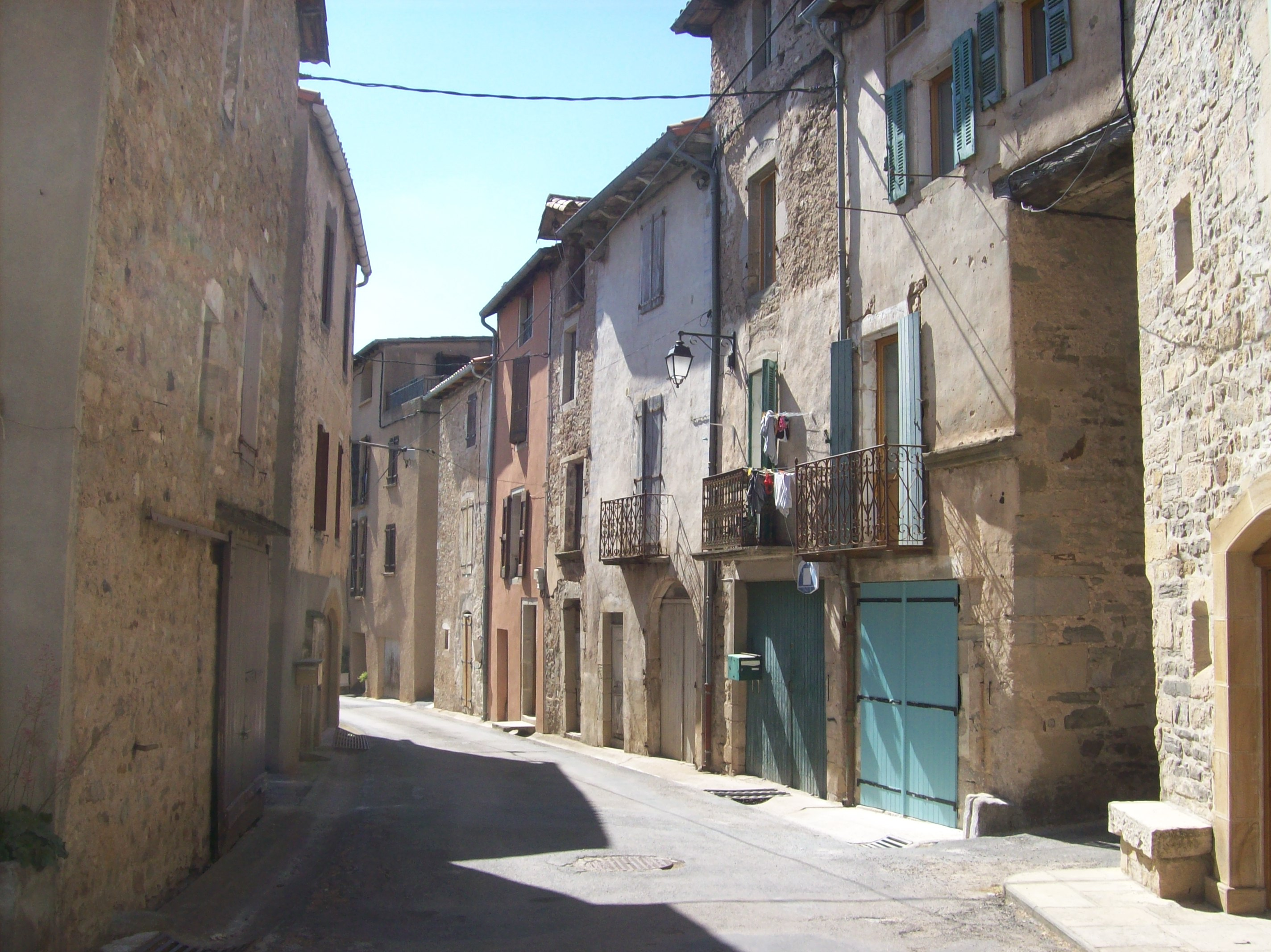 Main street of Saint-Felix-of-Sorgues in Aveyron (12400)